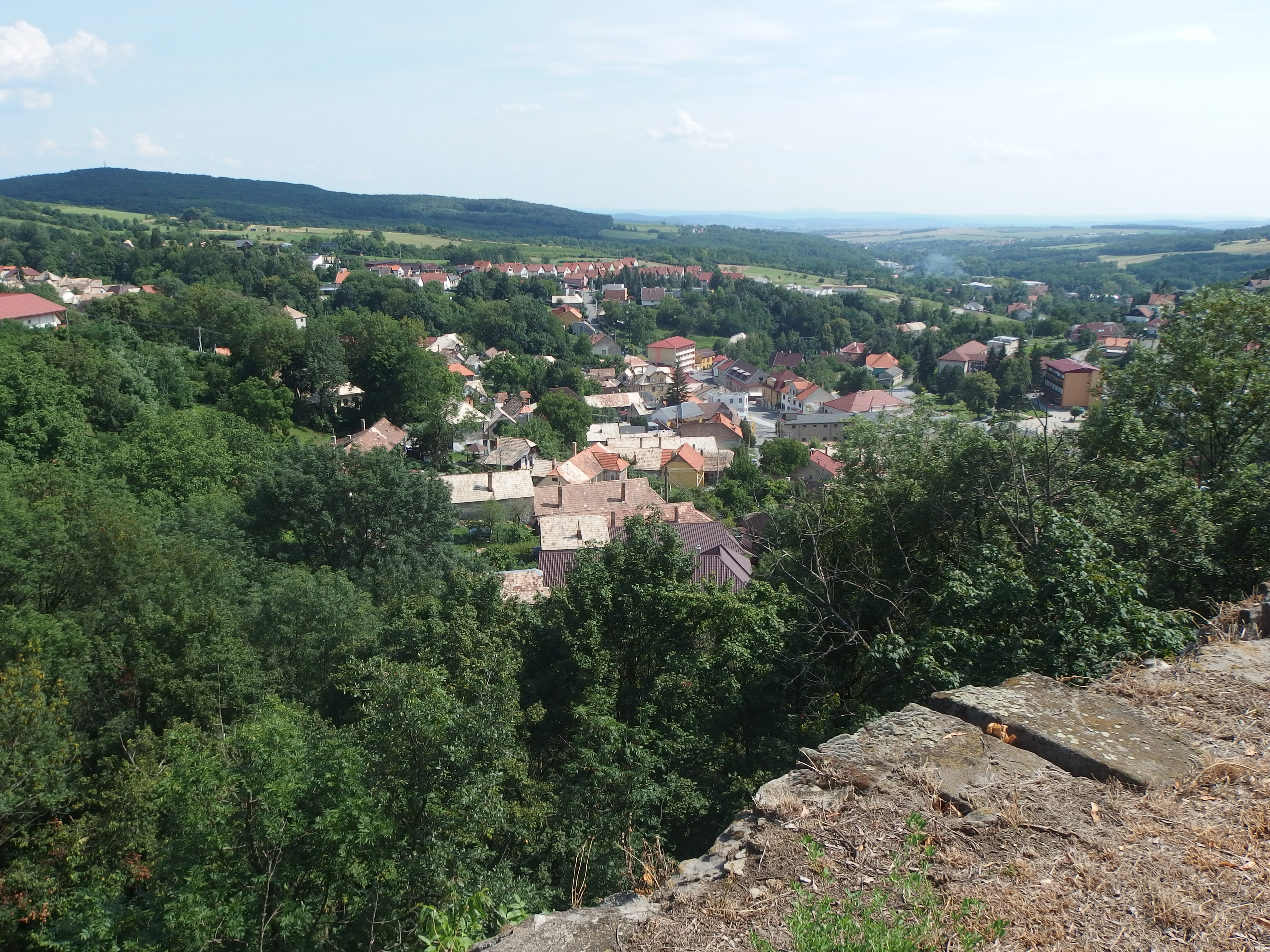 Modrý Kameň, Veľký Krtíš District, Slovakia.